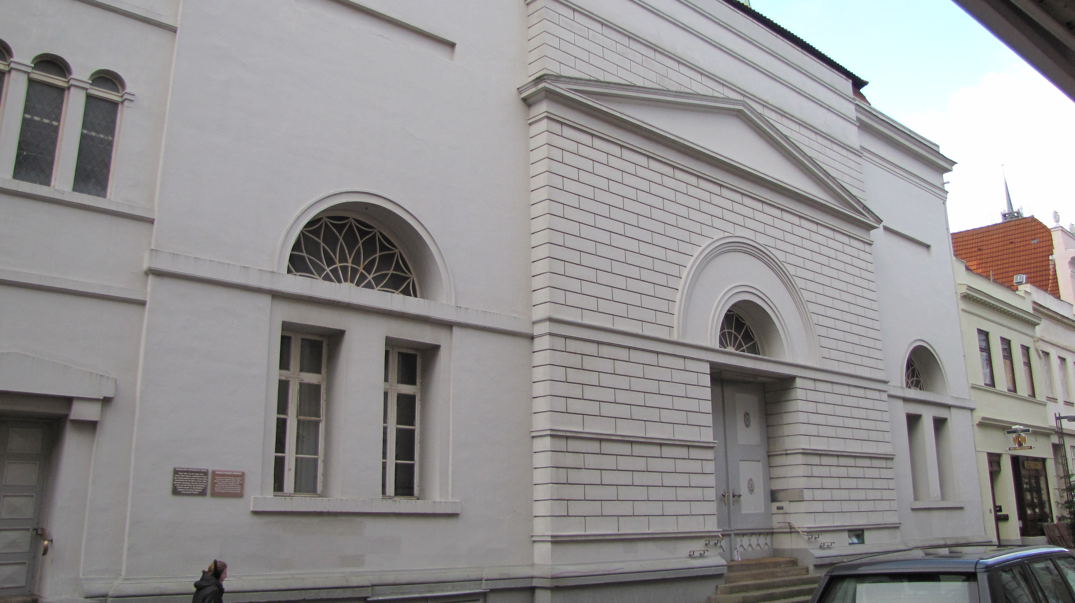 Exterior view of Reformed (Presbyterian) Church in Lübeck